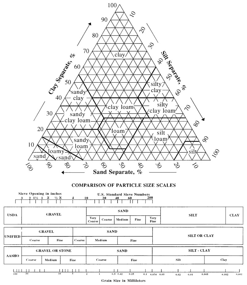 Soil Texture Triangle according to the USDA nomenclature